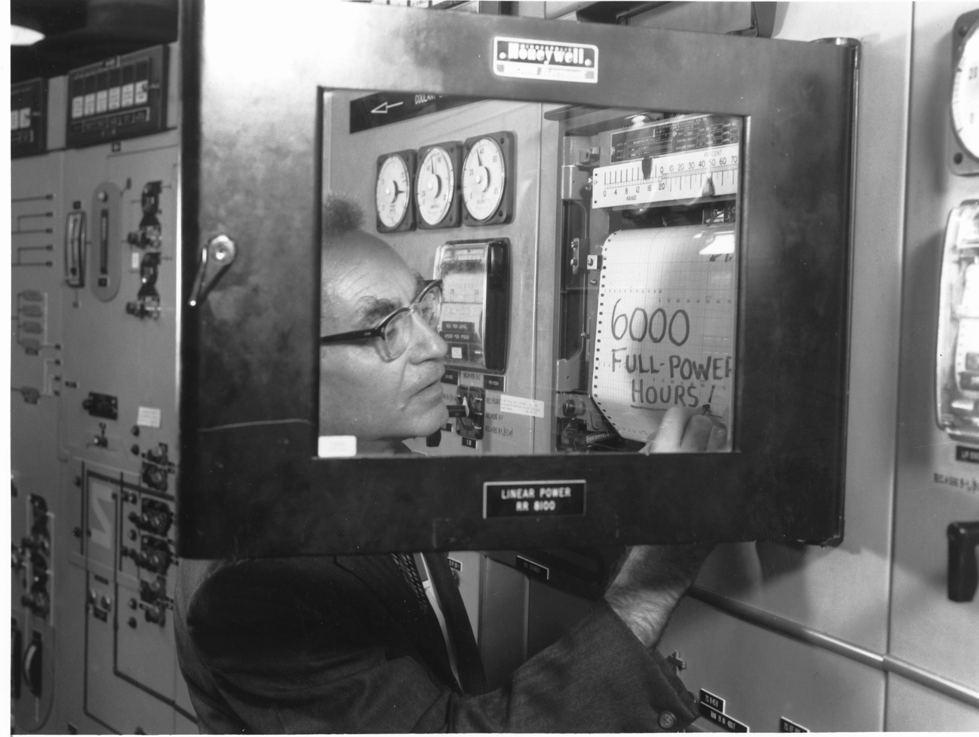 "ORNL director Alvin Weinberg notes the 6,000th hour of [MSRE] full-power operation."